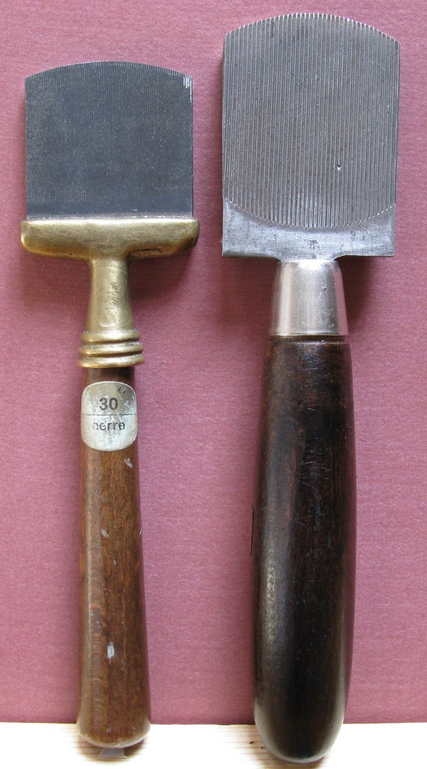 Rocker